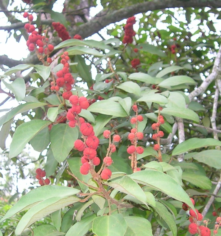 Mallotus philipensis, fruiting on Nandi hills slopes, Bangalore